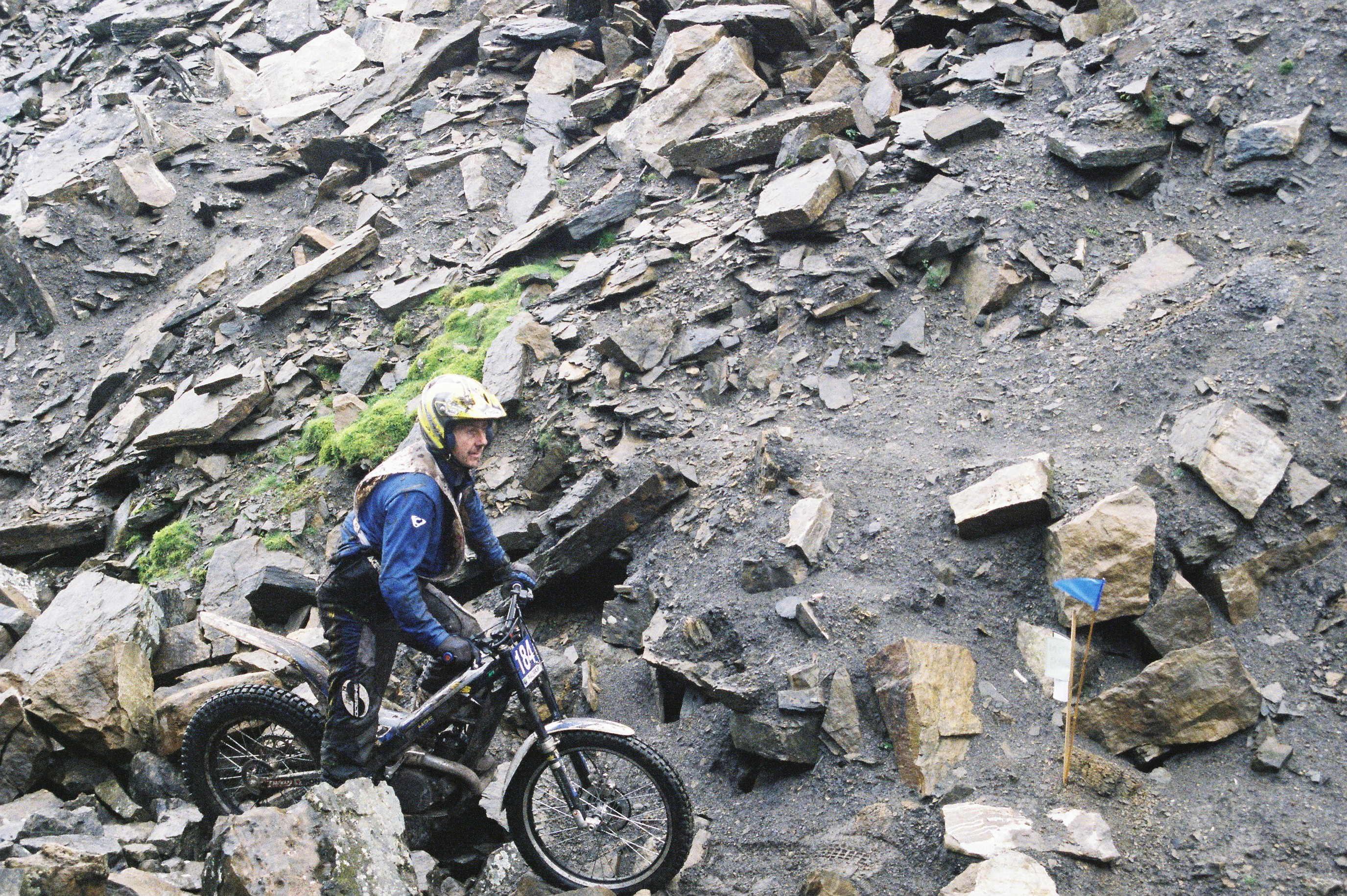 Scott Trial 2008. Graham Jarvis second rider to arrive at section 41. Ultimate winner.